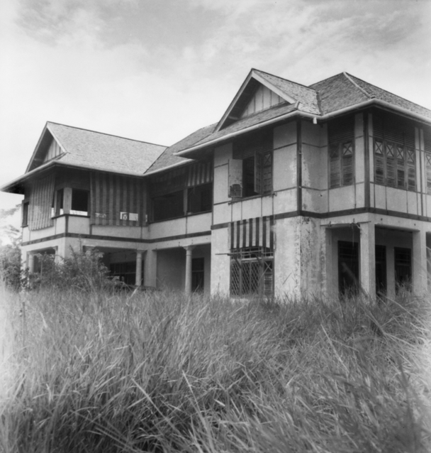 THE FORMER BRITISH RESIDENCY WHICH WAS USED BY THE JAPANESE AS THEIR UNIT HEADQUARTERS. IT IS NOW OCCUPIED BY 2/13TH INFANTRY BATTALION.